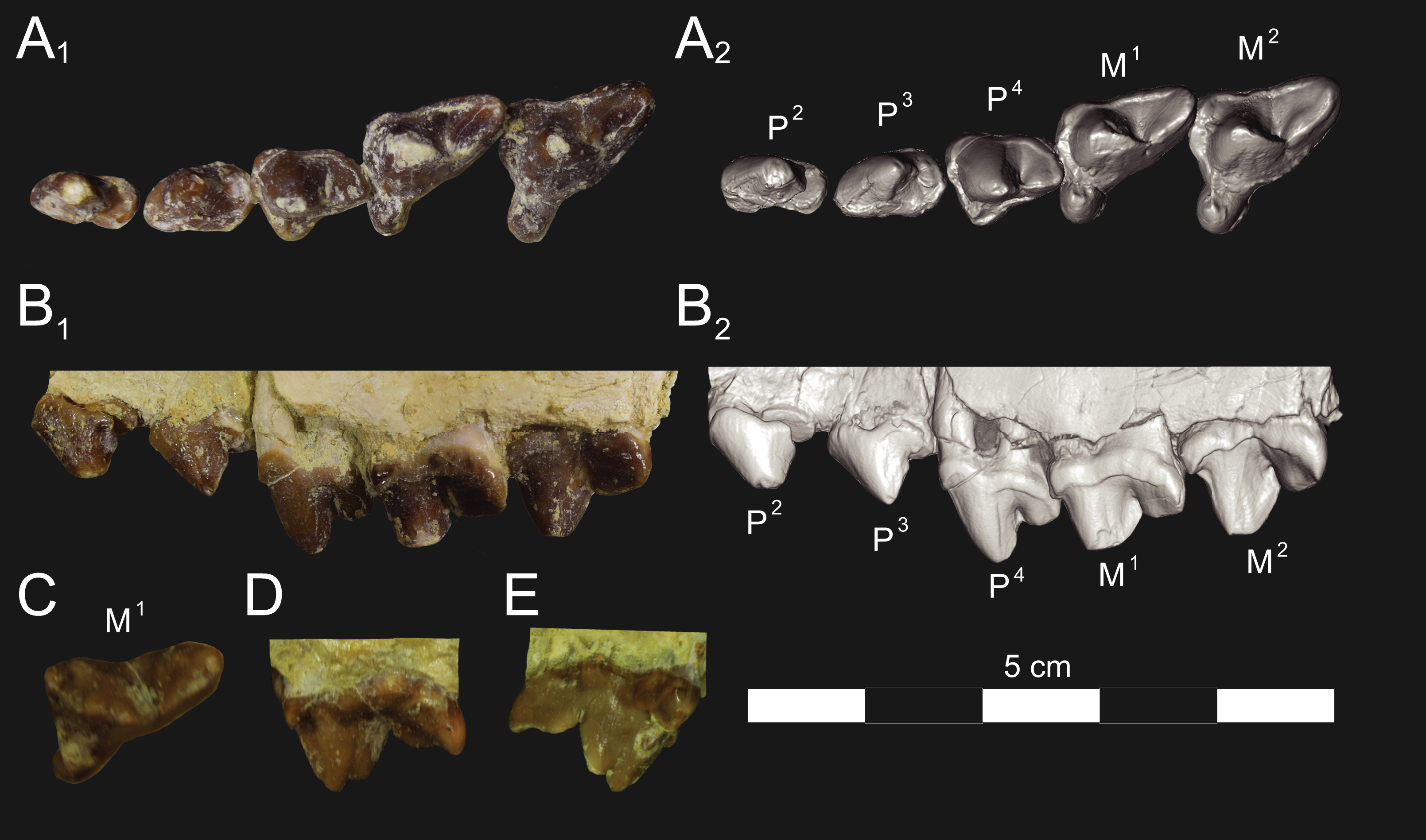 Akhnatenavus nefertiticyon, detail from DPC 18242 of left P2–M2; photographs of dental specimen on the left (subscript 1) and digital model images on the right (subscript 2); (A) occlusal view; (B) buccal view; DPC 13518, isolated left M1 in (C) occlusal; (D) buccal, and (E) lingual view